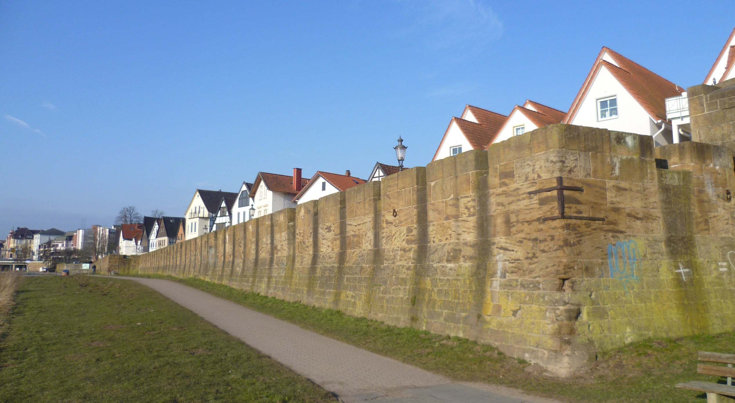 This image shows a heritage building in Germany, located in the North Rhine-Westphalian city Minden (no. 68).